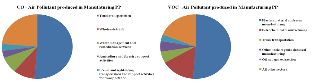 Air pollutants produced in manufacturing of polypropylene (PP). Diagrams for CO (carbon monoxide) and VOC (Volatile Organic Compounds)